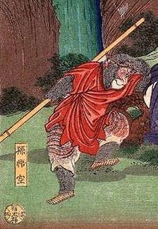 A scene of Journey to the West. Sun Wukong and Xuanzang